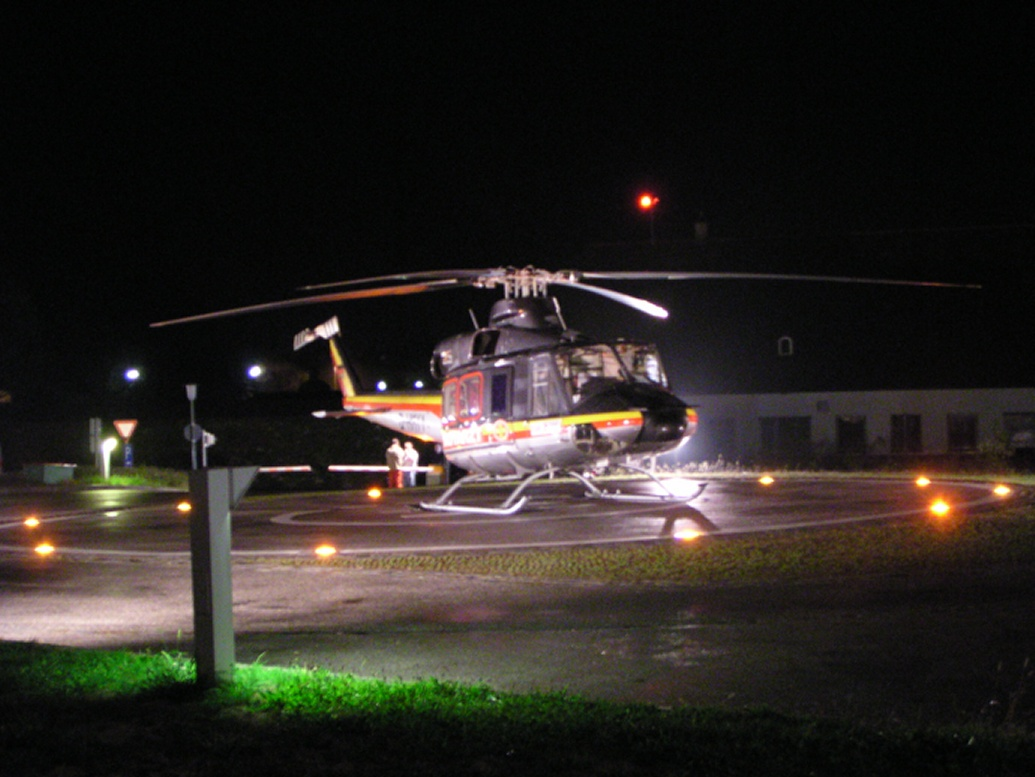 German Bell 412 used for intensive care medical transport.